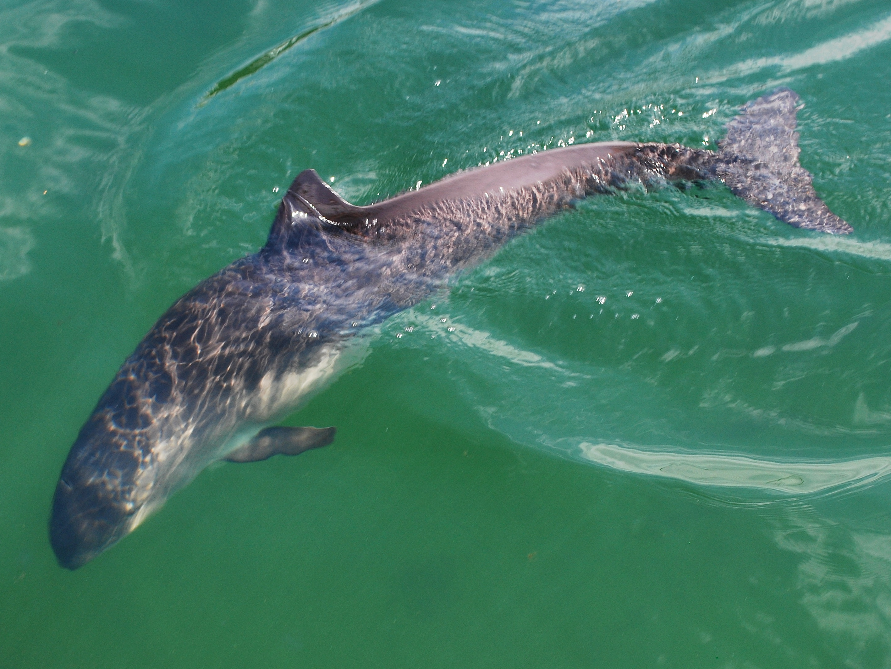 Fjord & Bæltcentret i Kerteminde - Denmark. The Harbor Porpoise (Phocoena phocoena) is one of six species of porpoise